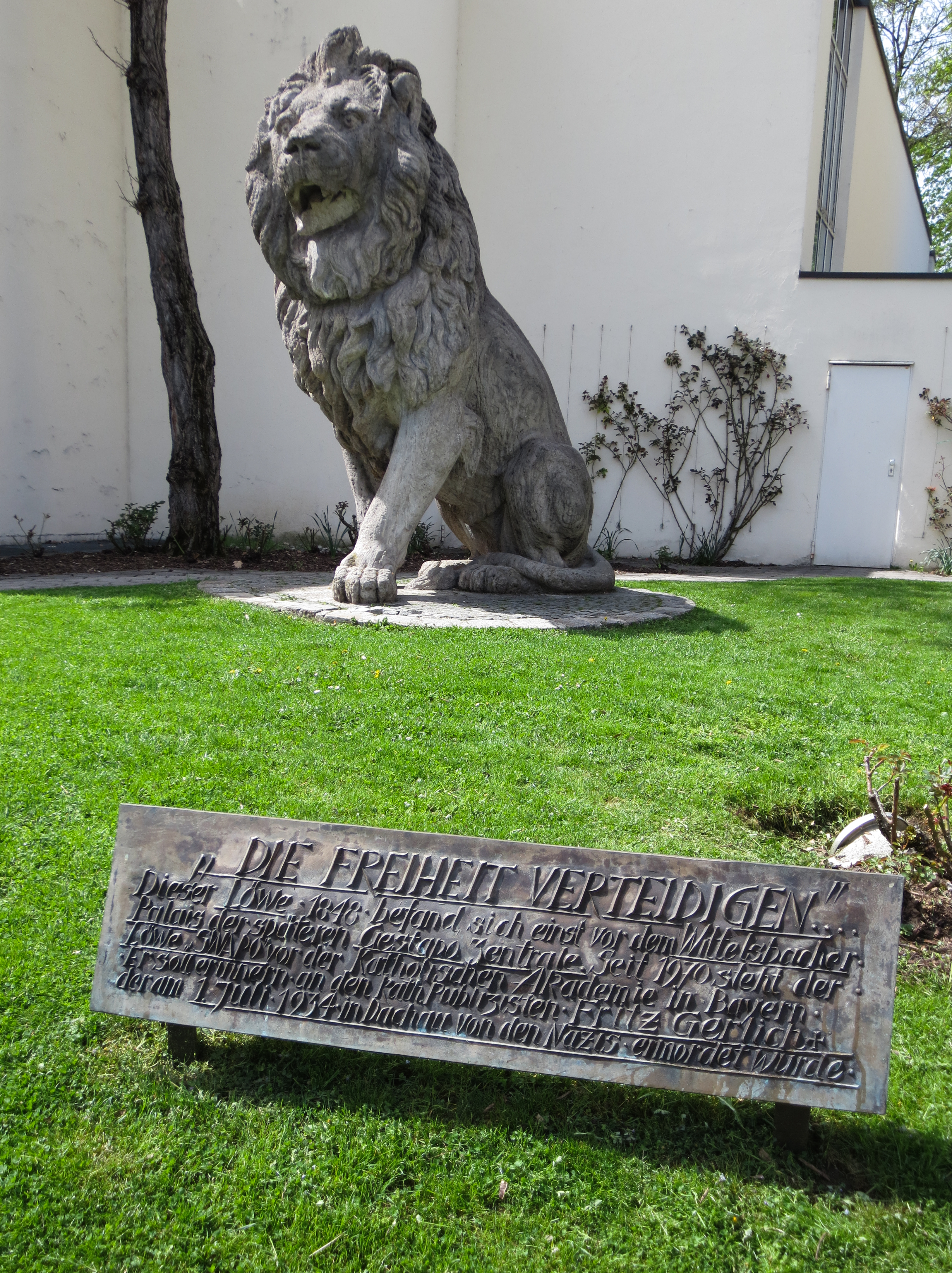 The Lion called Swapo and plaque as memorial at the catholic academy in bavaria. Originally he stood at Wittelbacher Palais, the later Gestapo headquarters.